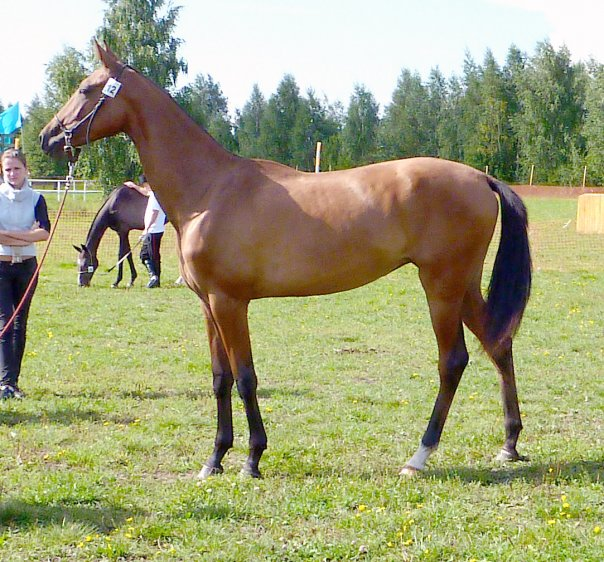 Typical Akhal Teke yearling filly